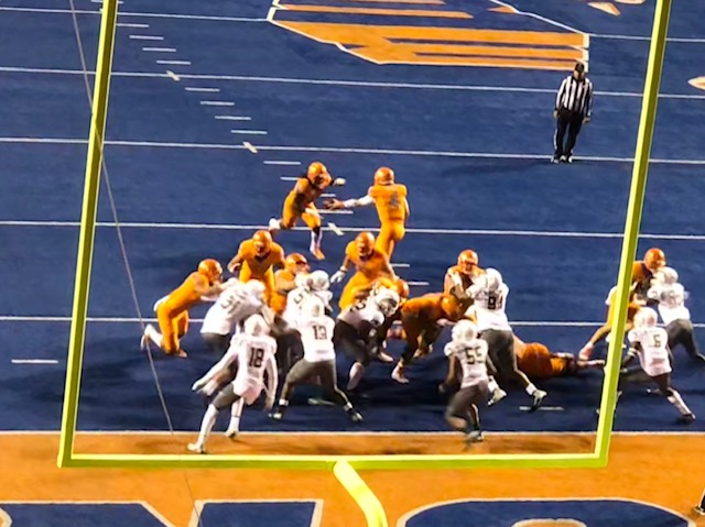 Boise State about to score a touchdown in the second quarter during their game vs Colorado State at Albertsons Stadium in Boise, Idaho on October 19, 2018.